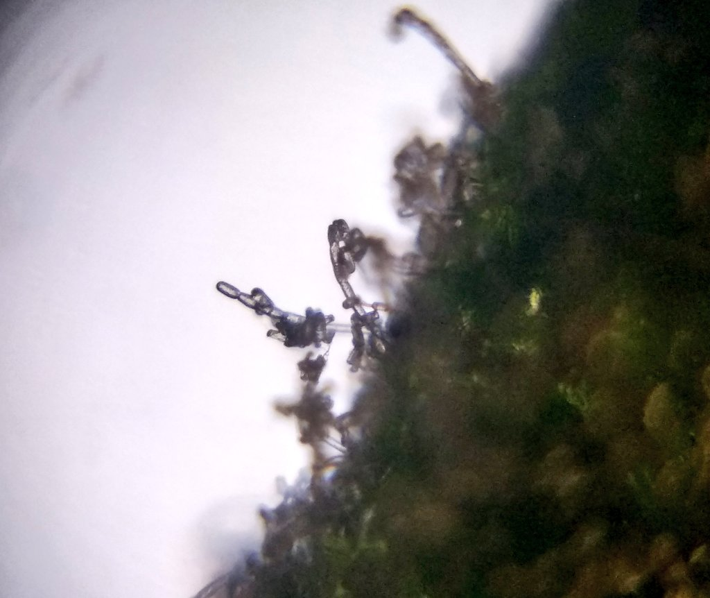 powdery mildew